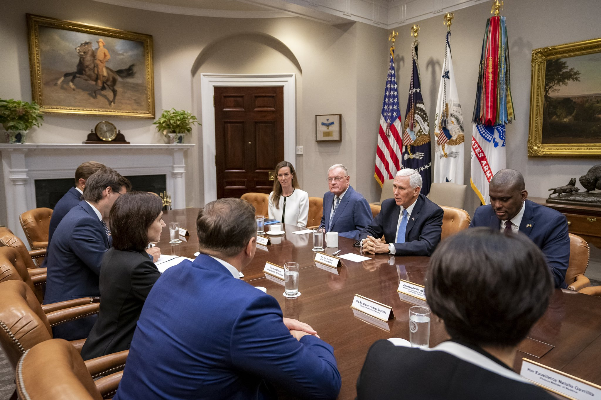 Proud to welcome the Prime Minister of Moldova Maia Sandu to the White House today! The US stands with the Moldovan people as they work to build a more secure & prosperous future!